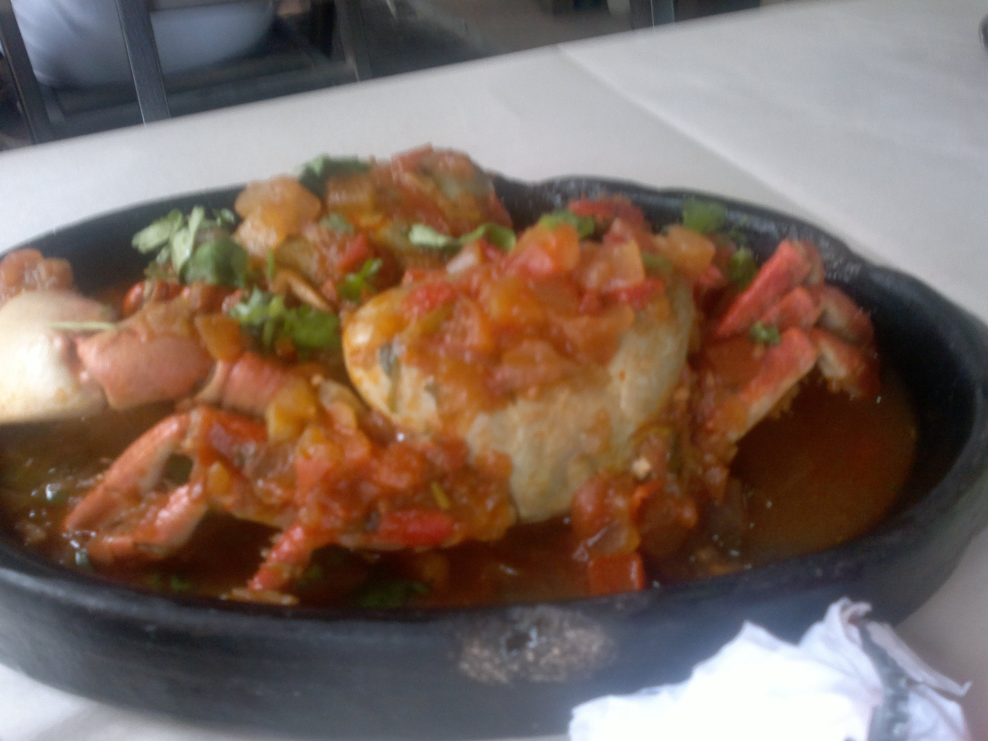 Cooked.Crab.2